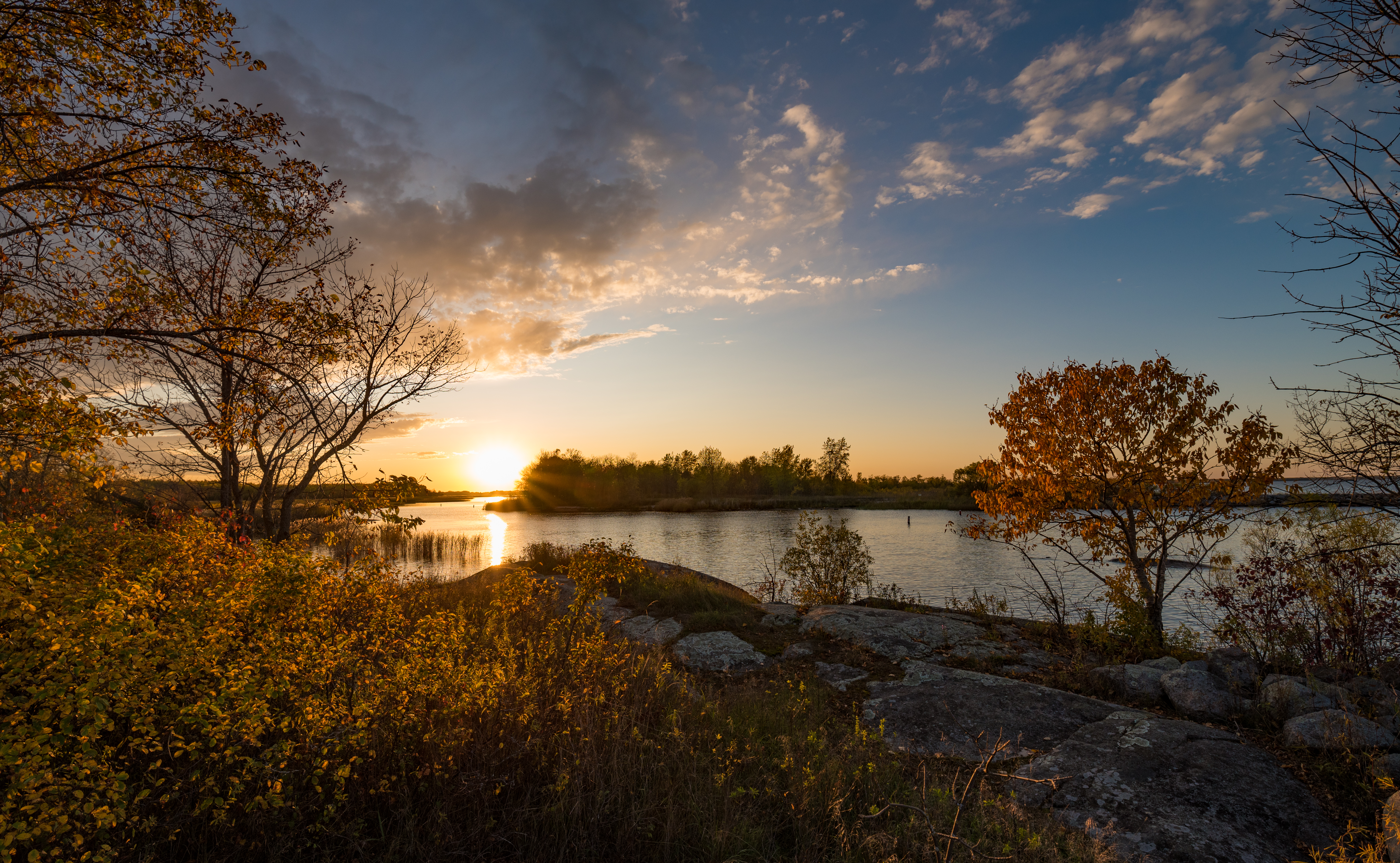 Sunset at the entrance to Zippel Bay at Lake of the Woods, Zippel Bay State Park, Minnesota.